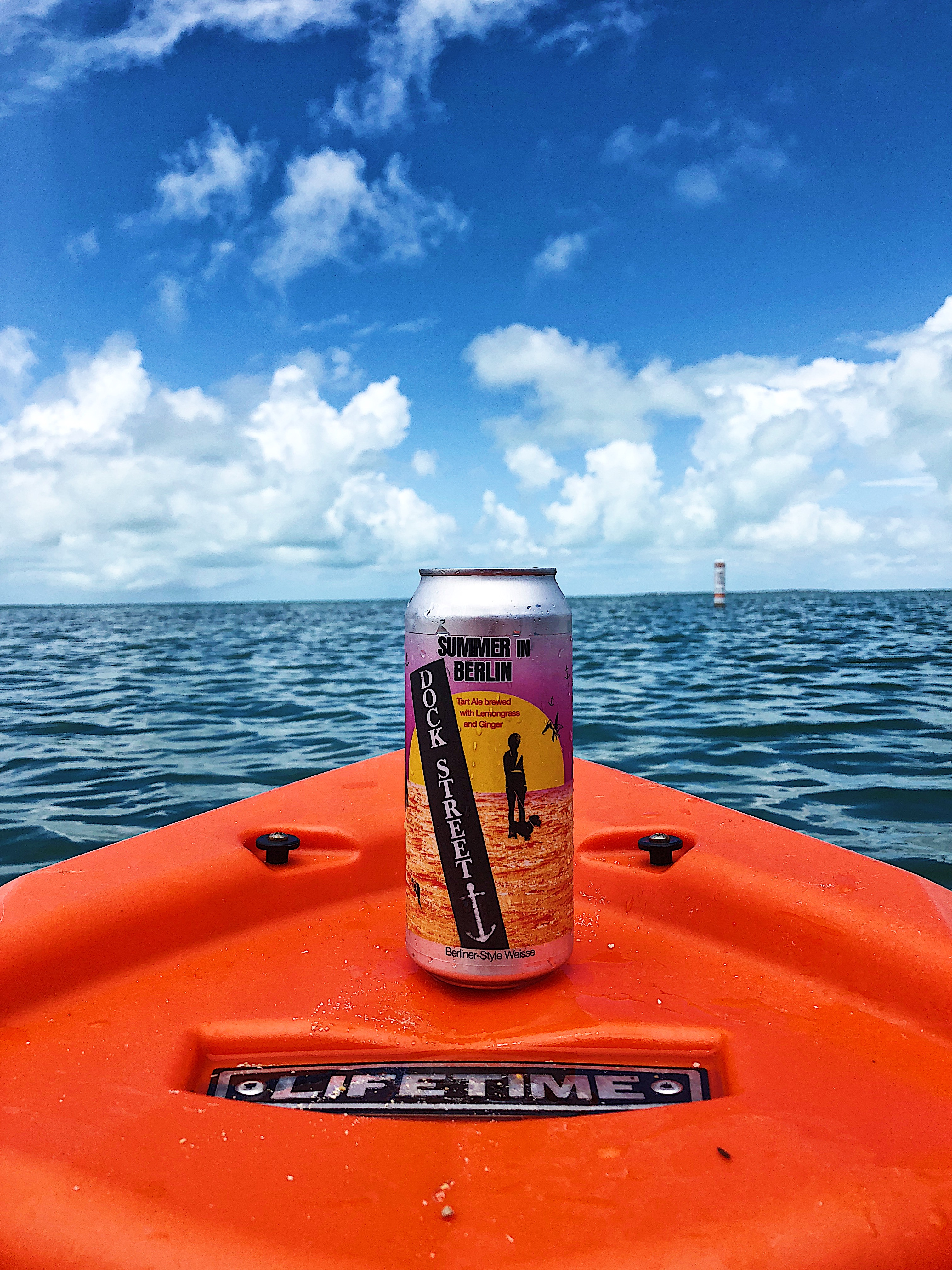 Dock Street Summer in Berlin